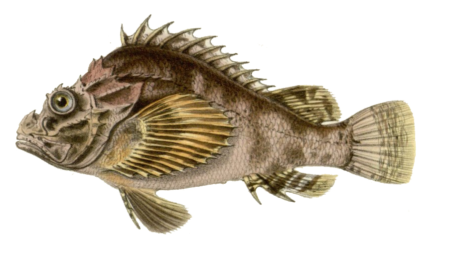 Scorpaenopsis gibbosa